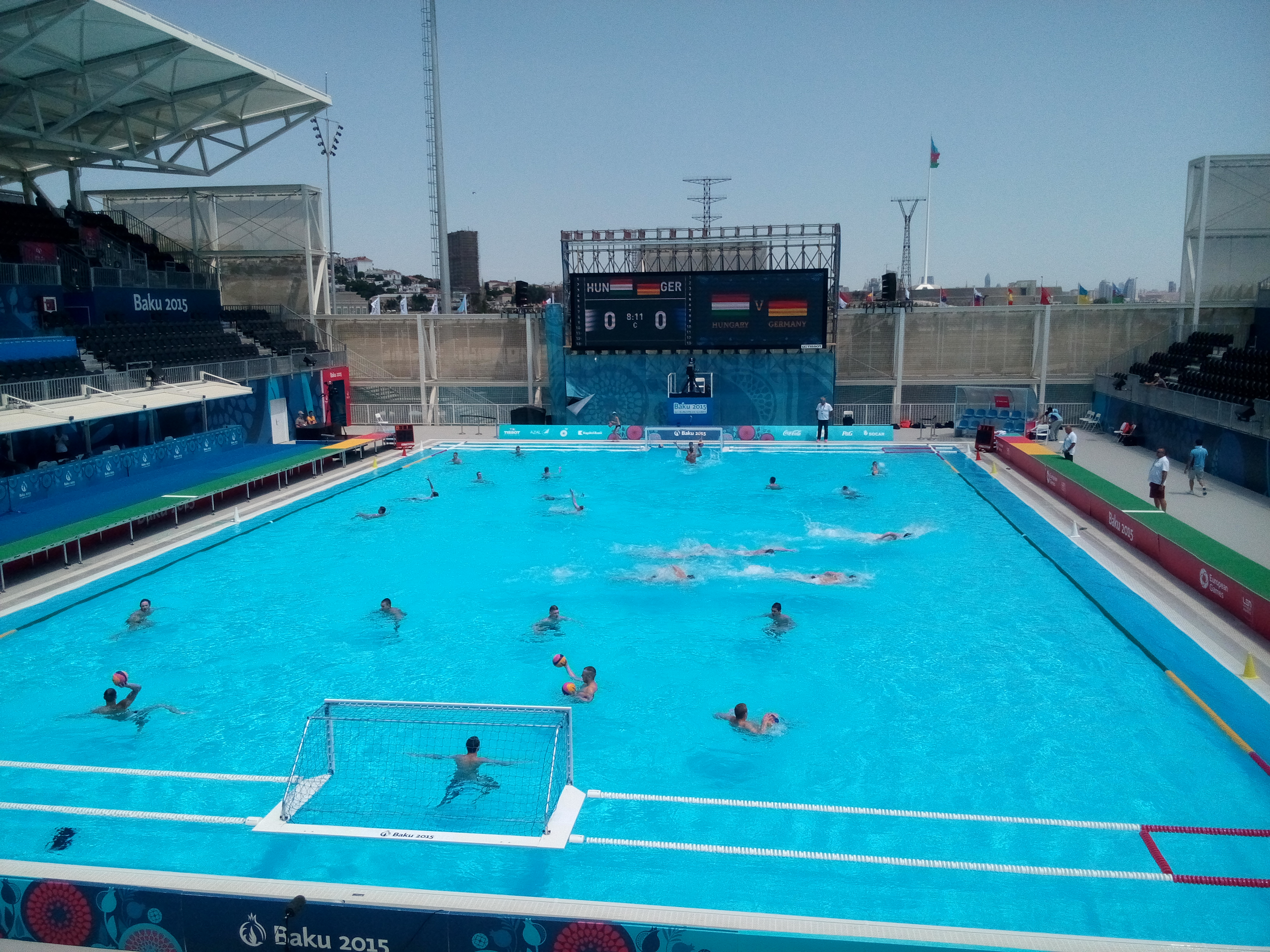 2015 European Games. Water polo. Men's tournament. Group B. Hungary vs Germany